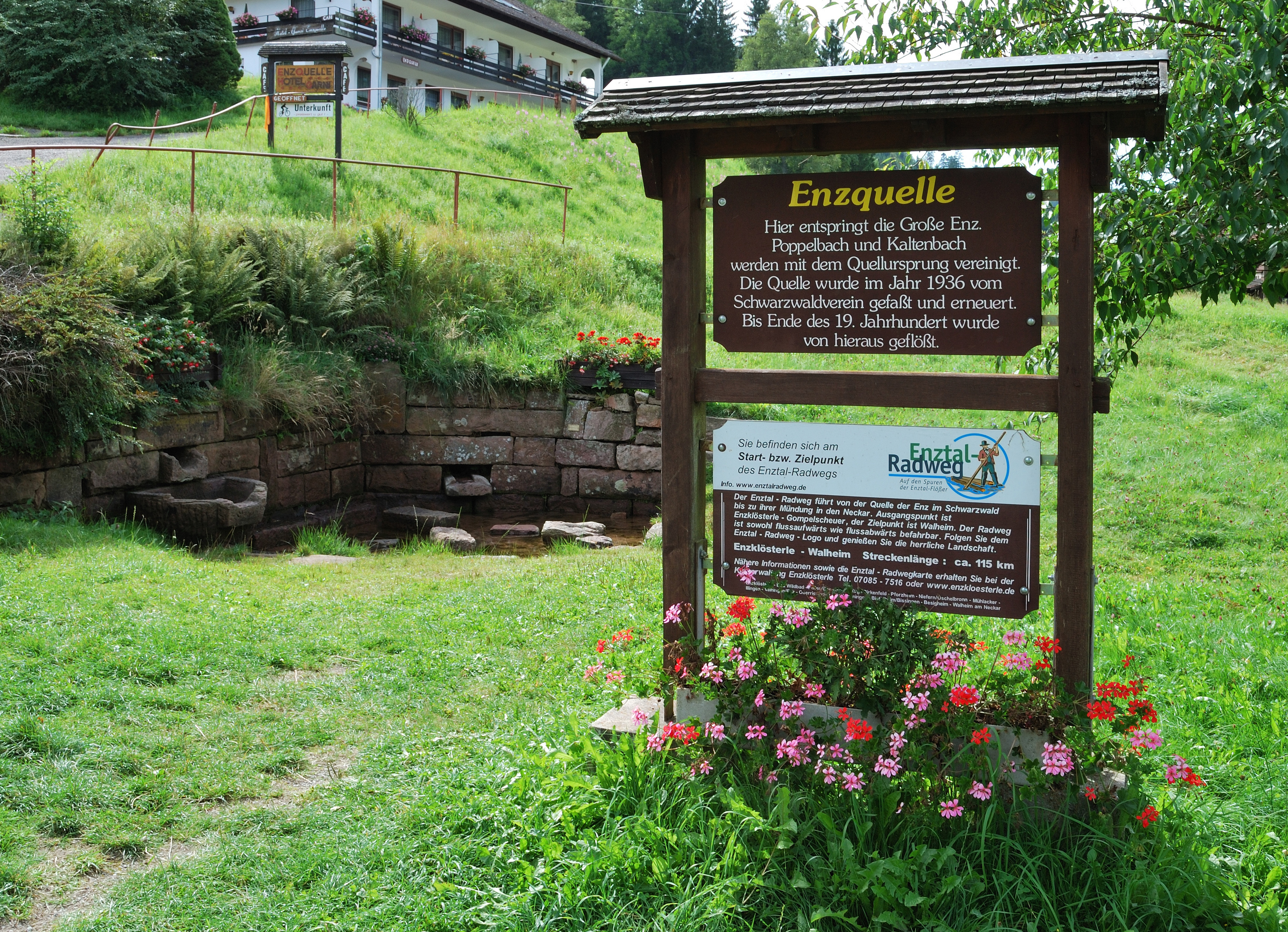 River head of the Enz in northern Black Forest in Germany. Start and end of the Enz cycle tour.